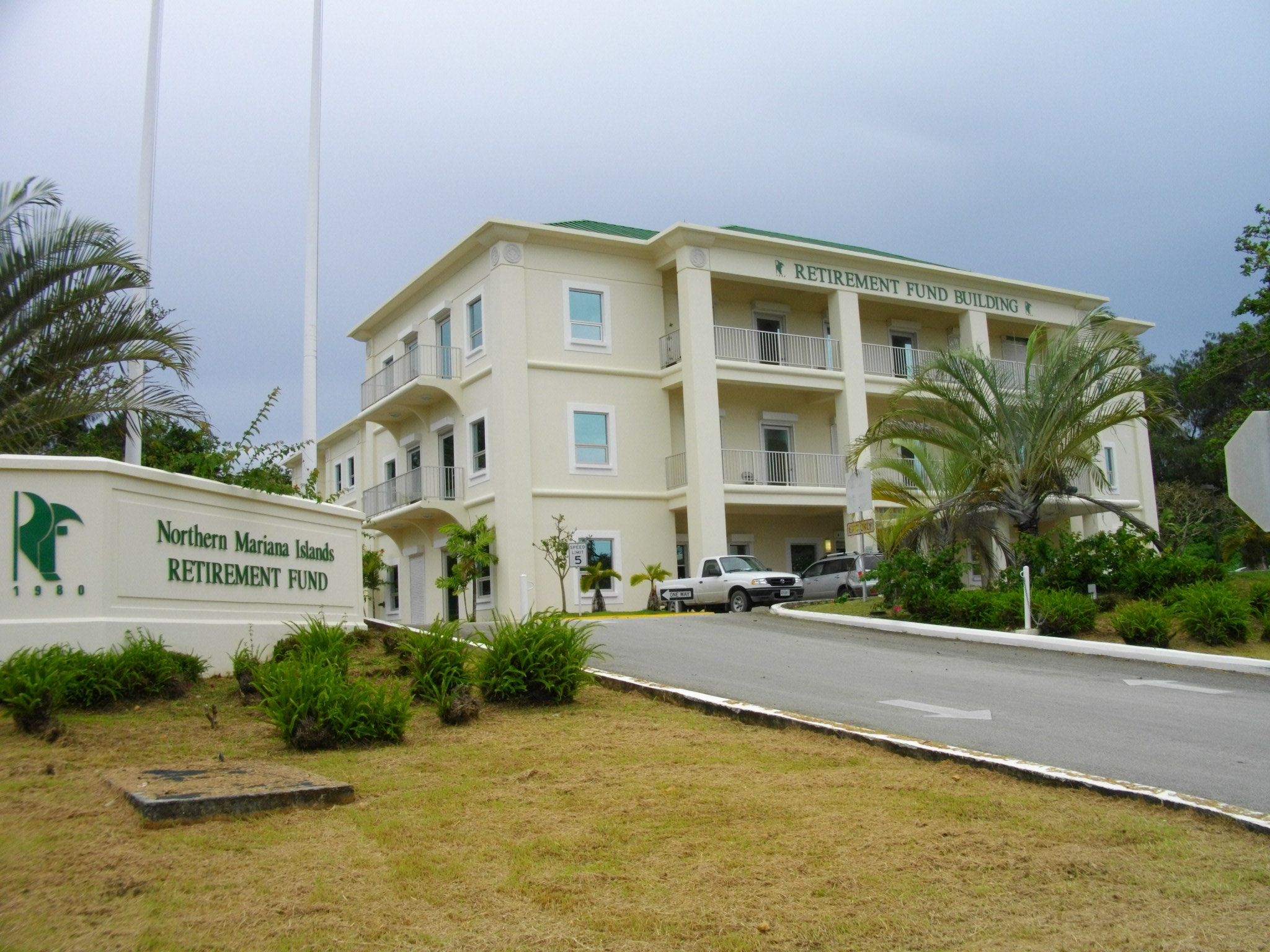 Northern Mariana Islands Retirement Fund Building